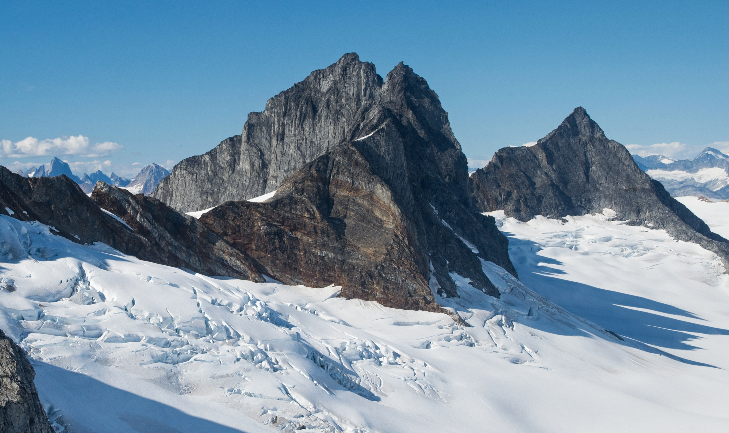 Looking north to Taku Towers and Cathedral Peak on Juneau Icefield.